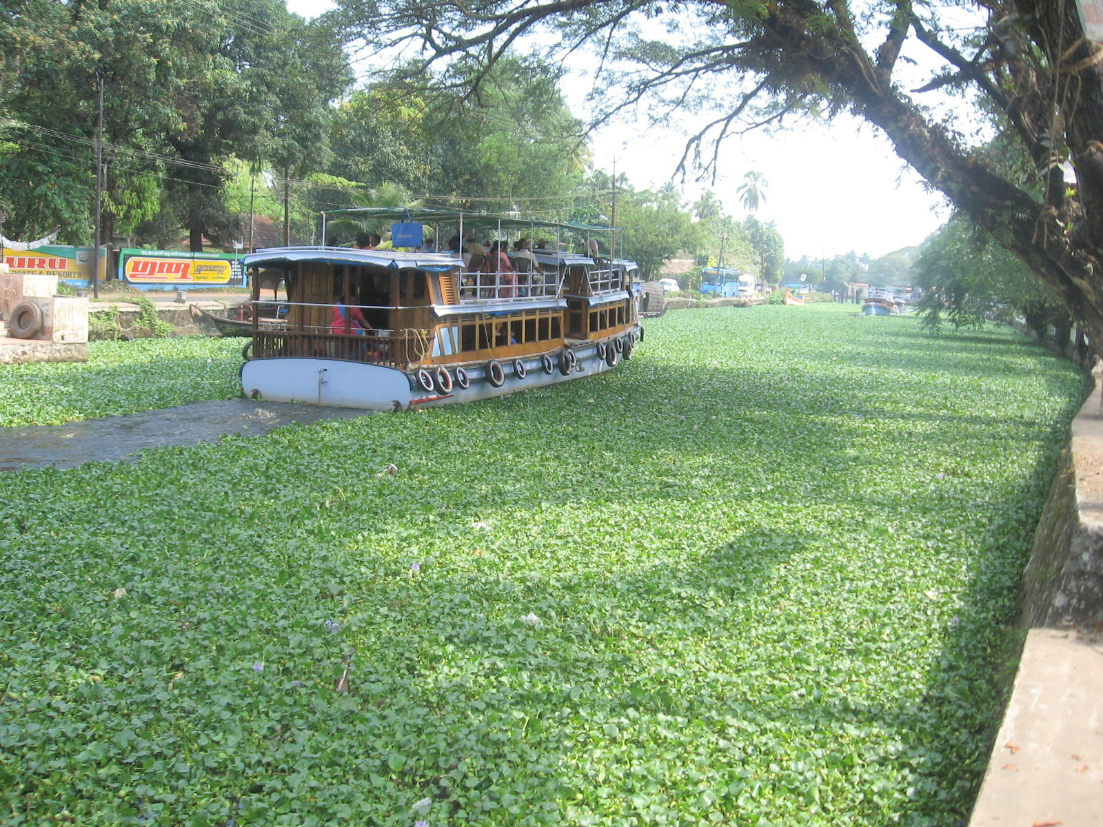 A ferry wades through water hyacinth in an Alppuzha canal